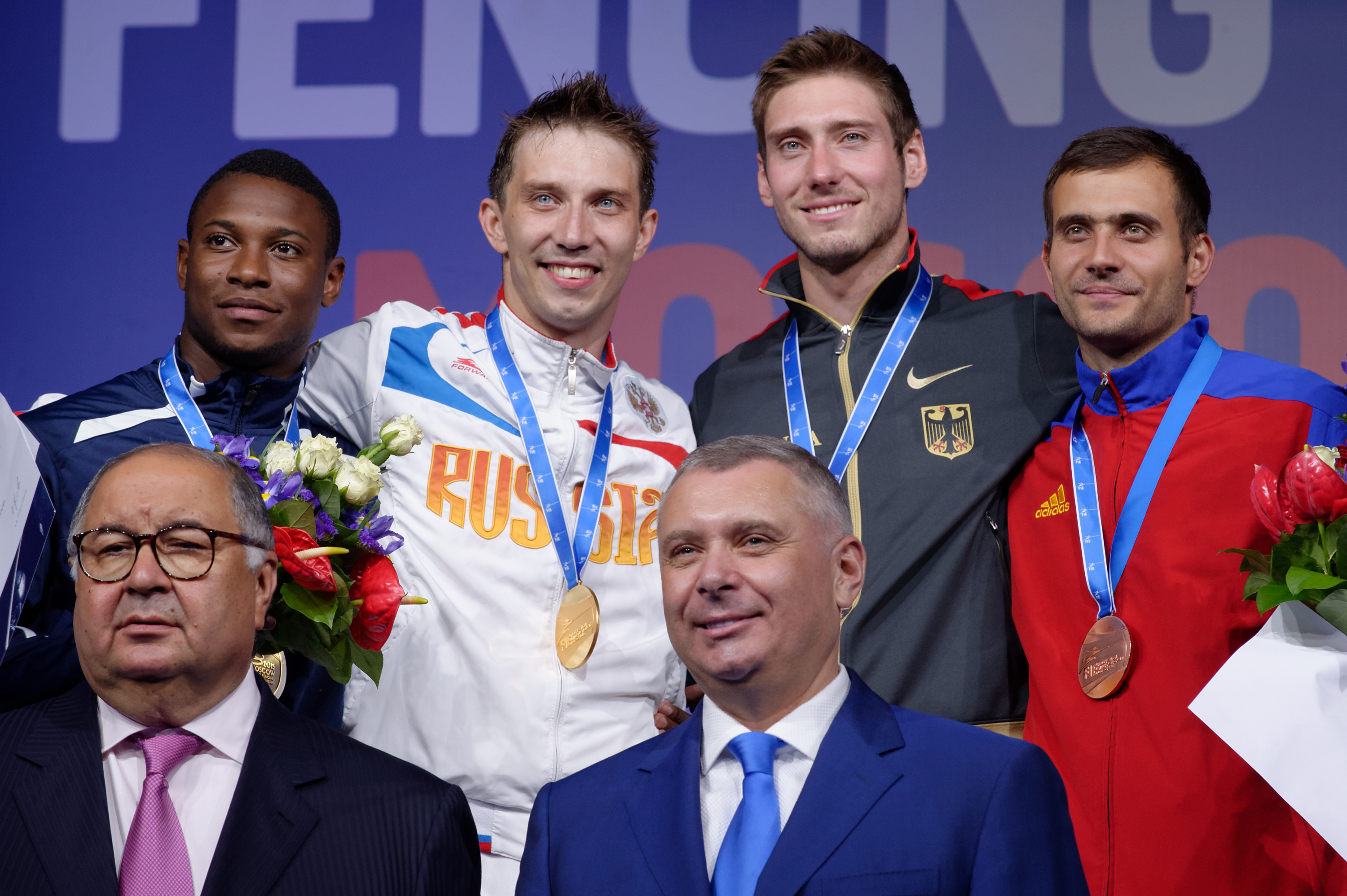 Podium of the men's sabre event (from left to right, Daryl Homer, Aleksey Yakimenko, Max Hartung and Tiberiu Dolniceanu) at the 2015 World Fencing Championships on 14 July 2014 at the Olympic Stadium in Moscow.